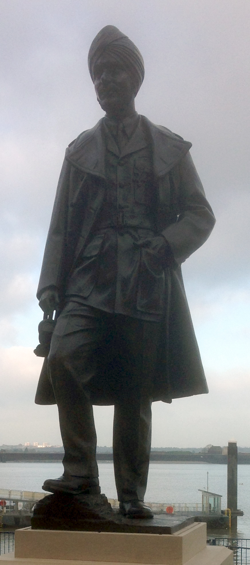 Statue of Mahinder Singh Pujji in St Andrew's Gardens, Gravesend. Erected November 2014.